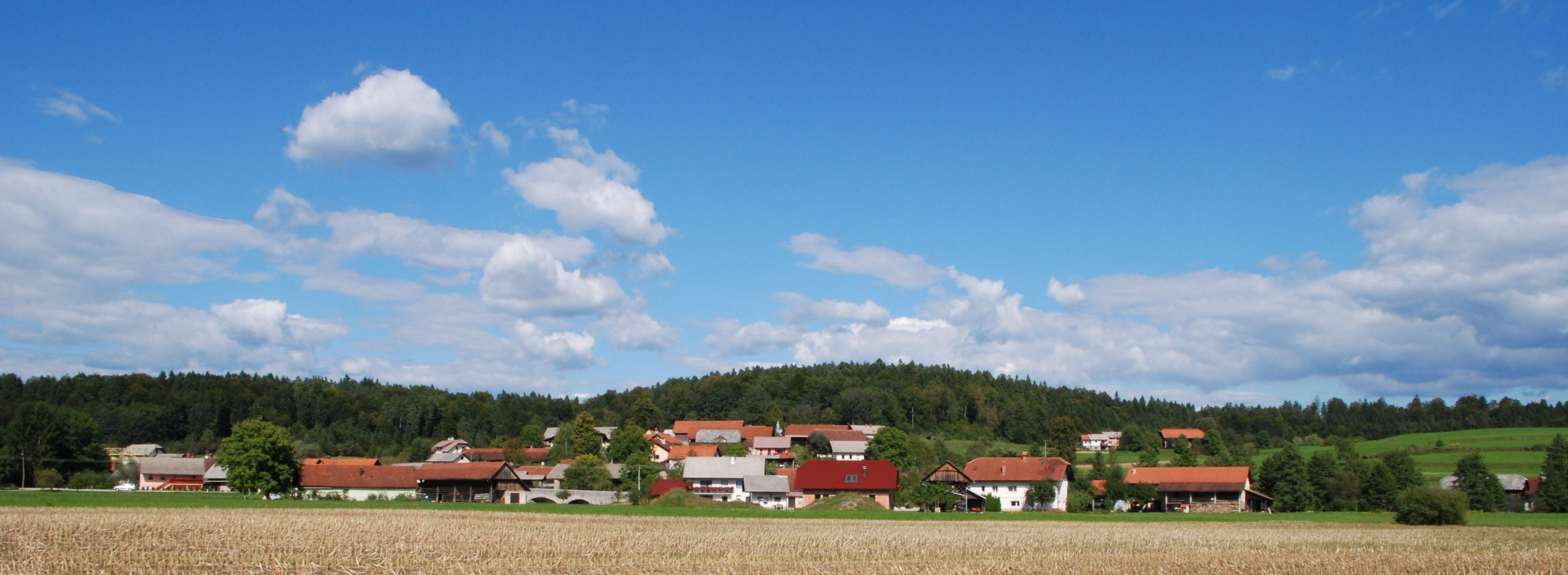 Panoramic view of Bistrica (Municipality of Šentrupert, Slovenia) from the Sevnica–Trebnje rail line that passes by south of the village.